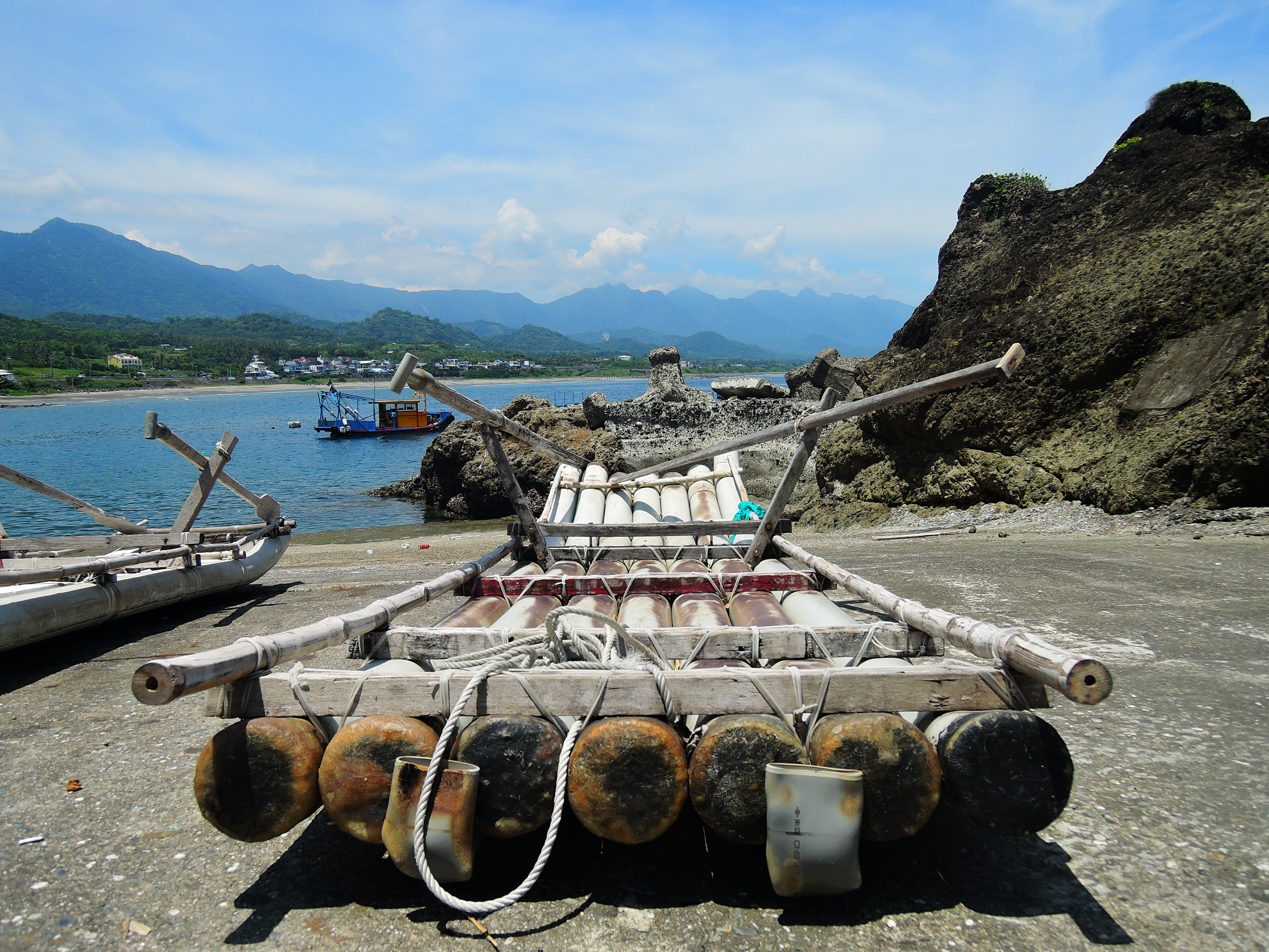 Wushibi Fishing Port, Changbin Township, Taitung, Taiwan